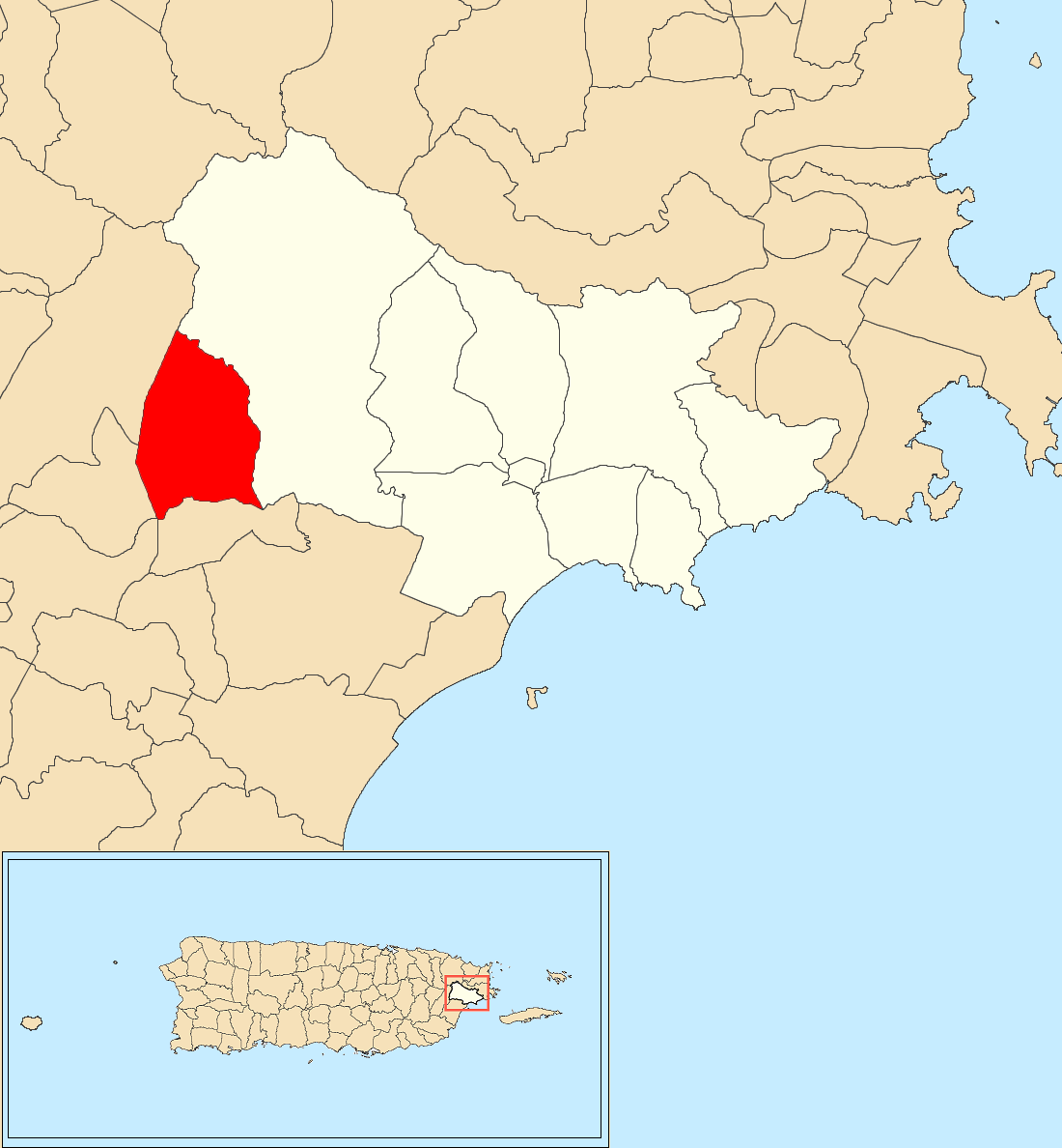 Peña Pobre, Naguabo, Puerto Rico locator map